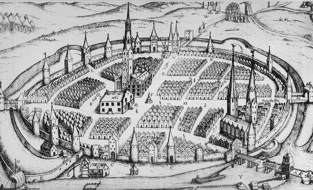 engraving, Hameln in 1622